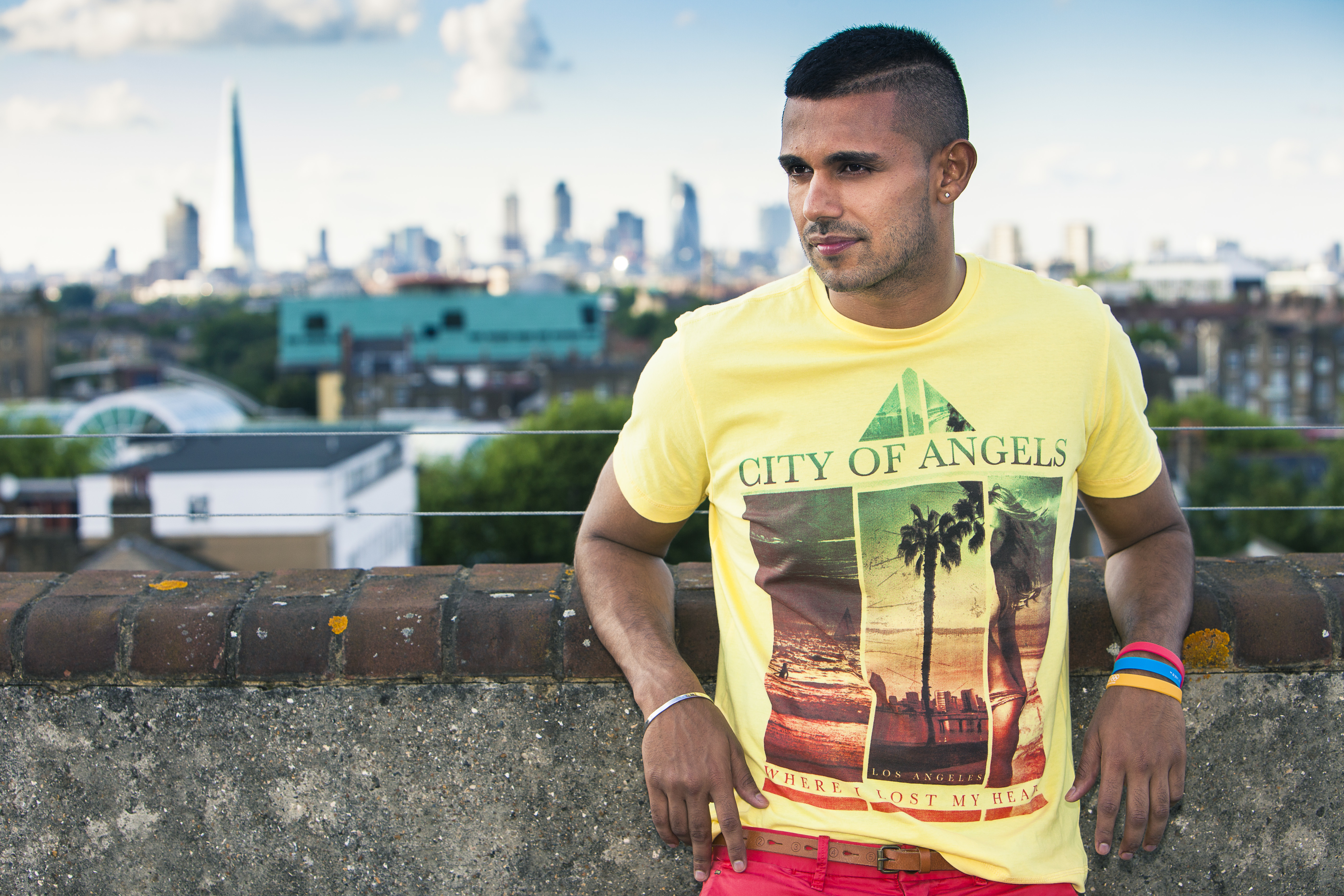 A jpeg of Jaz Dhami a punjabi artist from the UK